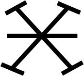 A completed scoring cross used for the Bavarian card game of Ramsen